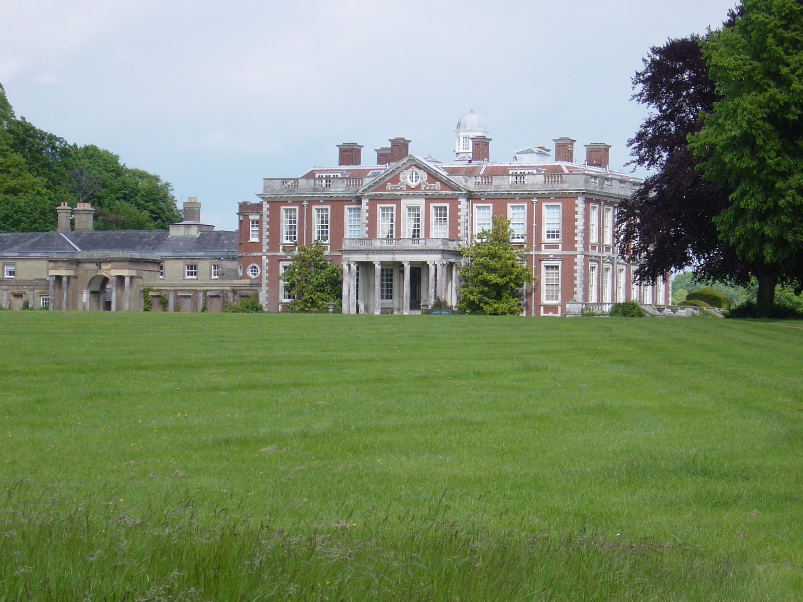 Ben Shade, Own Picture